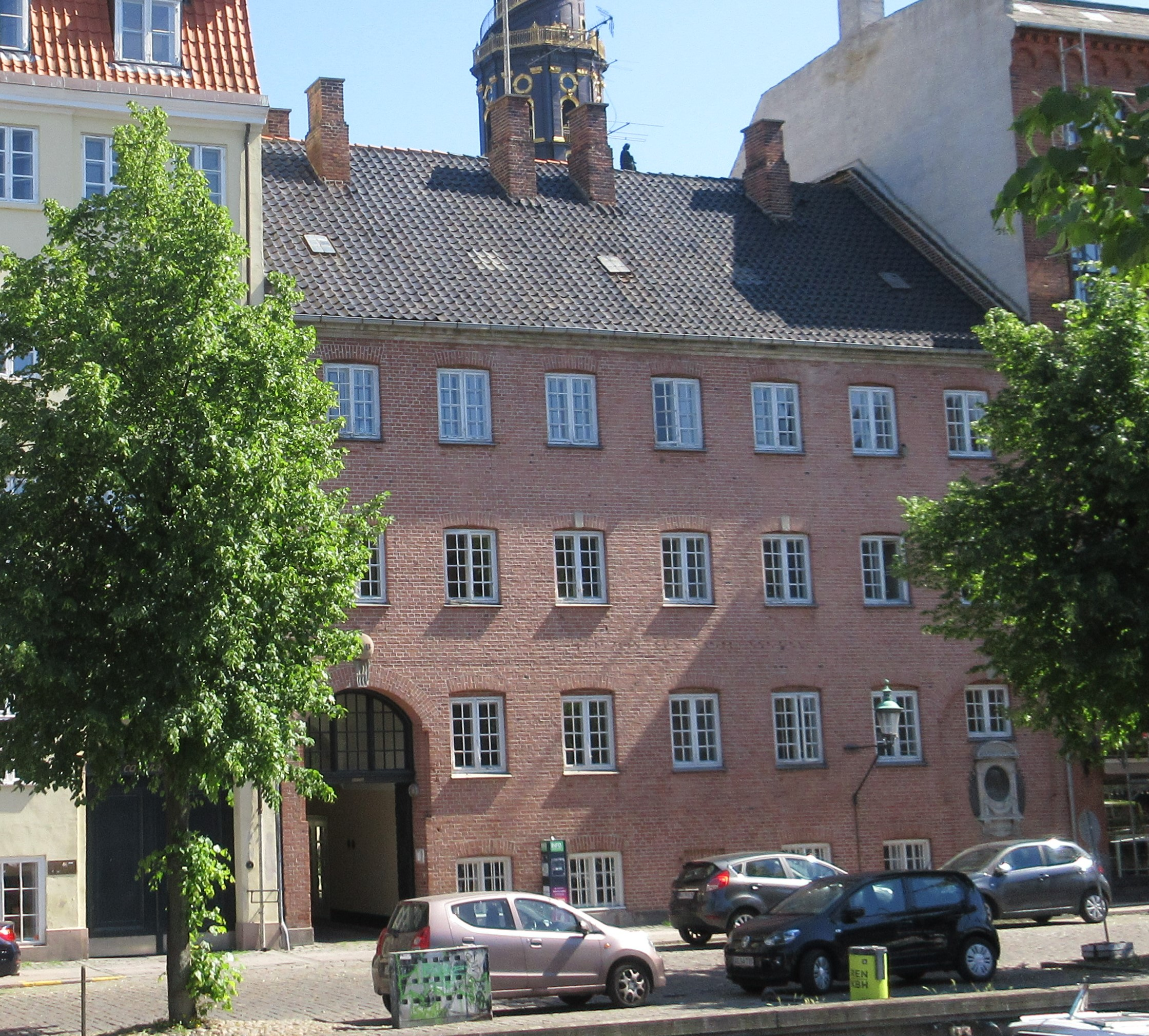 The property Bombebøssen in Christianshavn, Copenahgen, Denmark